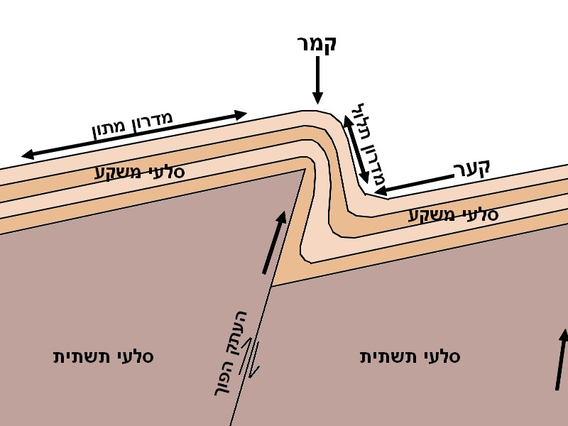 Structure of Makhtesh monocline